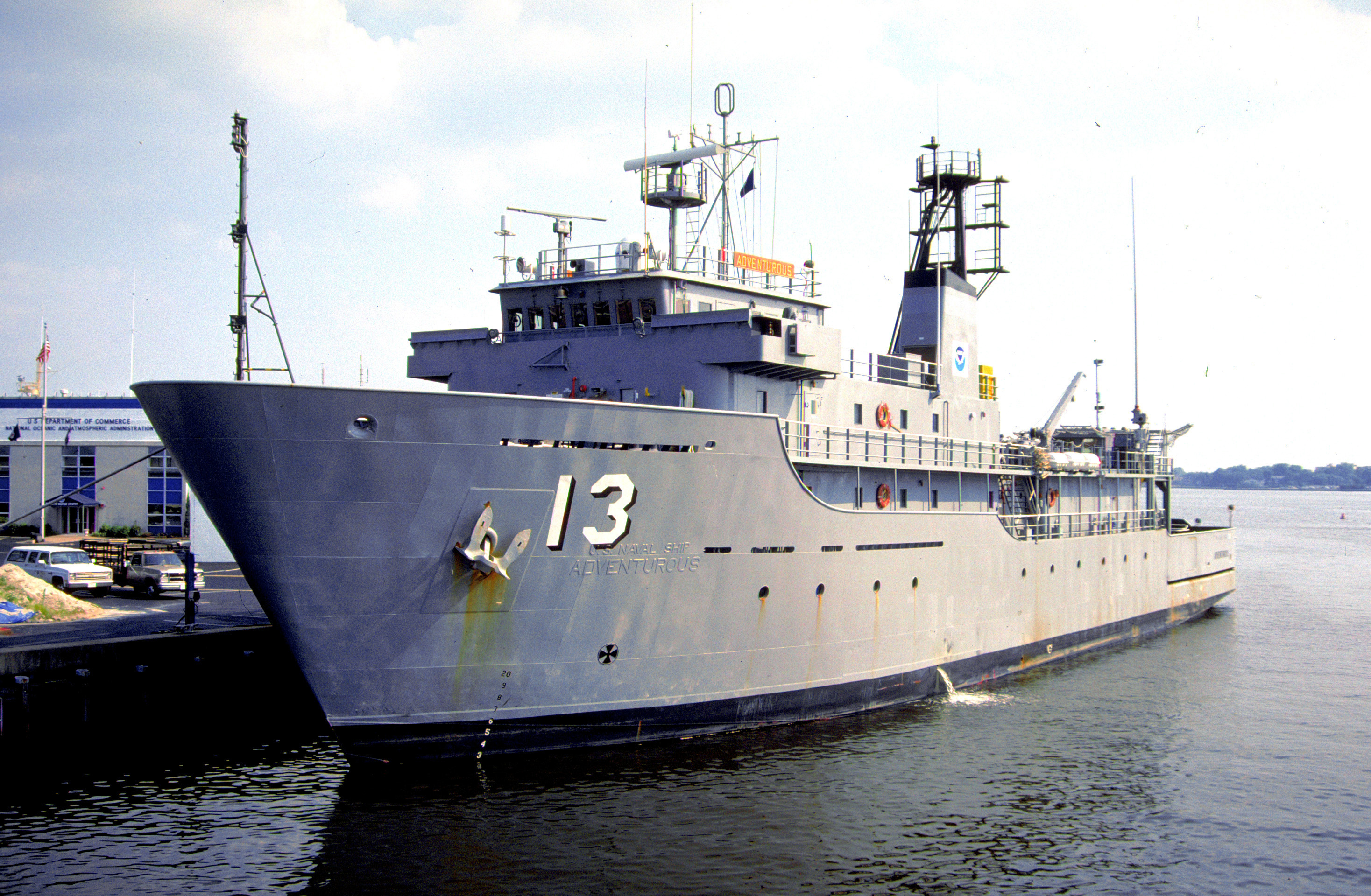 The ocean surveillance ship USNS ADVENTUROUS (T-AGOS-13) stands tied to the Department of Commerce's National Oceanic and Atmospheric Administration (NOAA) pier. Location: ELIZABETH RIVER, NORFOLK, VIRGINIA (VA) UNITED STATES OF AMERICA (USA)